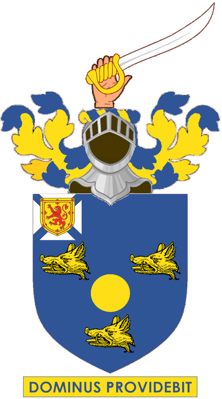 The armorial achievement of the Gordon baronets of Earlston and Afton